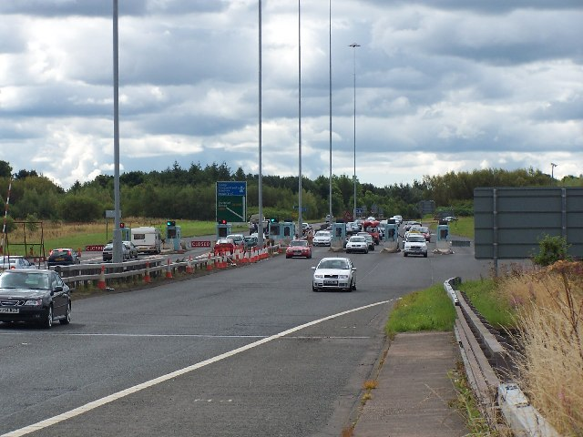 Toll booths. on the Erskine Bridge across the River Clyde